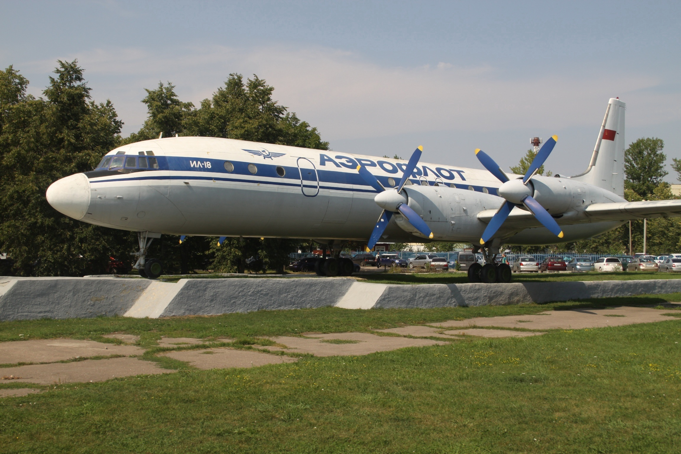 At Moscow Sheremetyevo